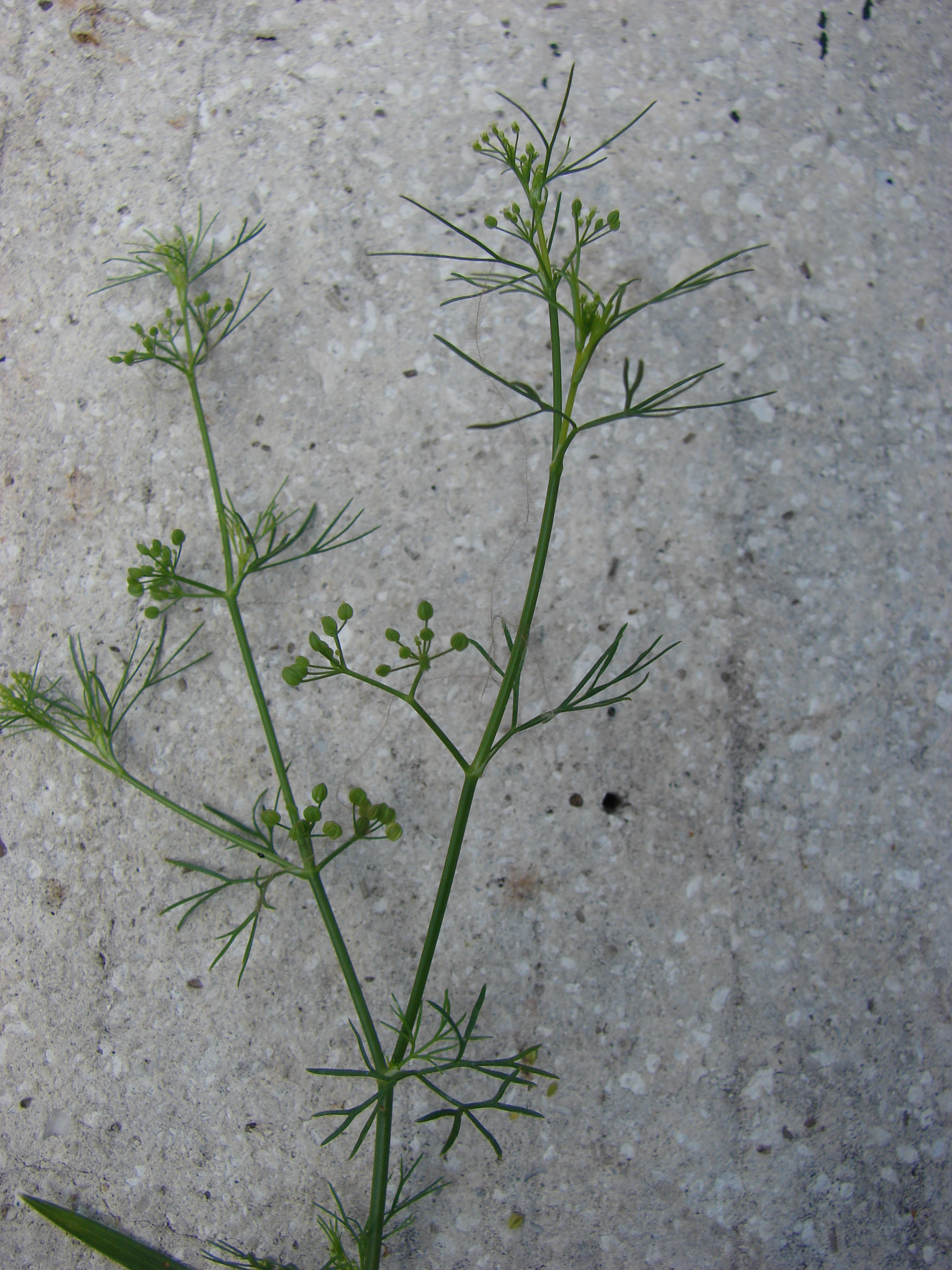 Ciclospermum leptophyllum (habit). Location: Midway Atoll, Charlie barracks Sand Island